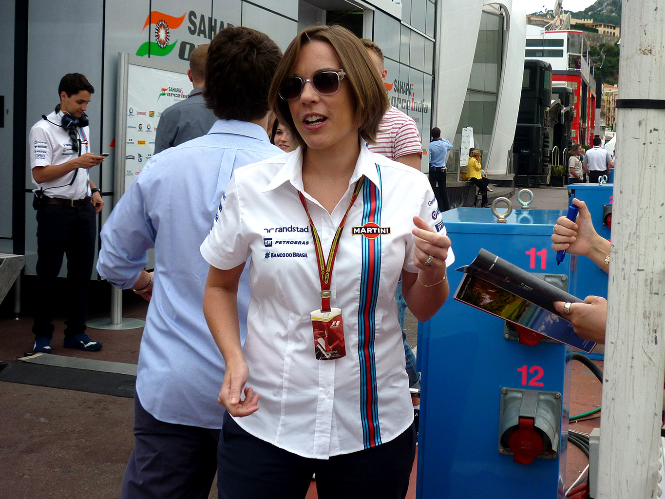 Claire Williams at the 2014 Monaco Grand Prix